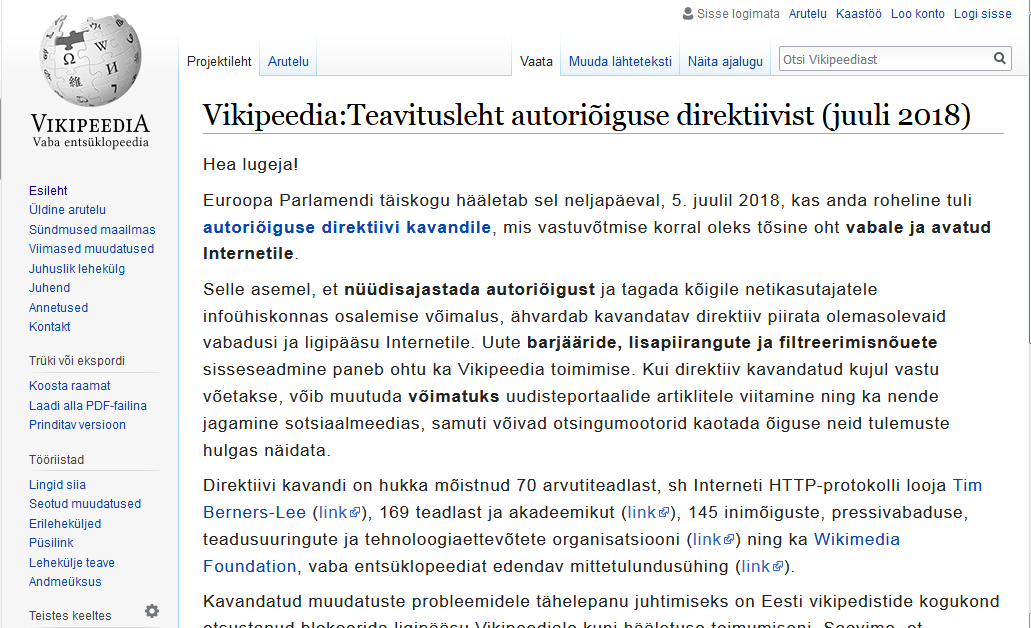 Estonian Wikipedia blackout on July 4, 2018